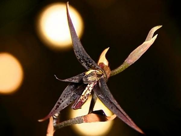 Kraenzlinella anfracta